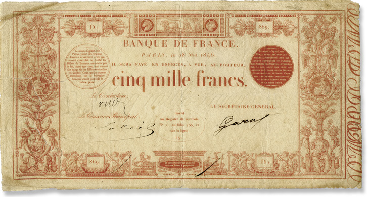 First French banknote in color (1847)